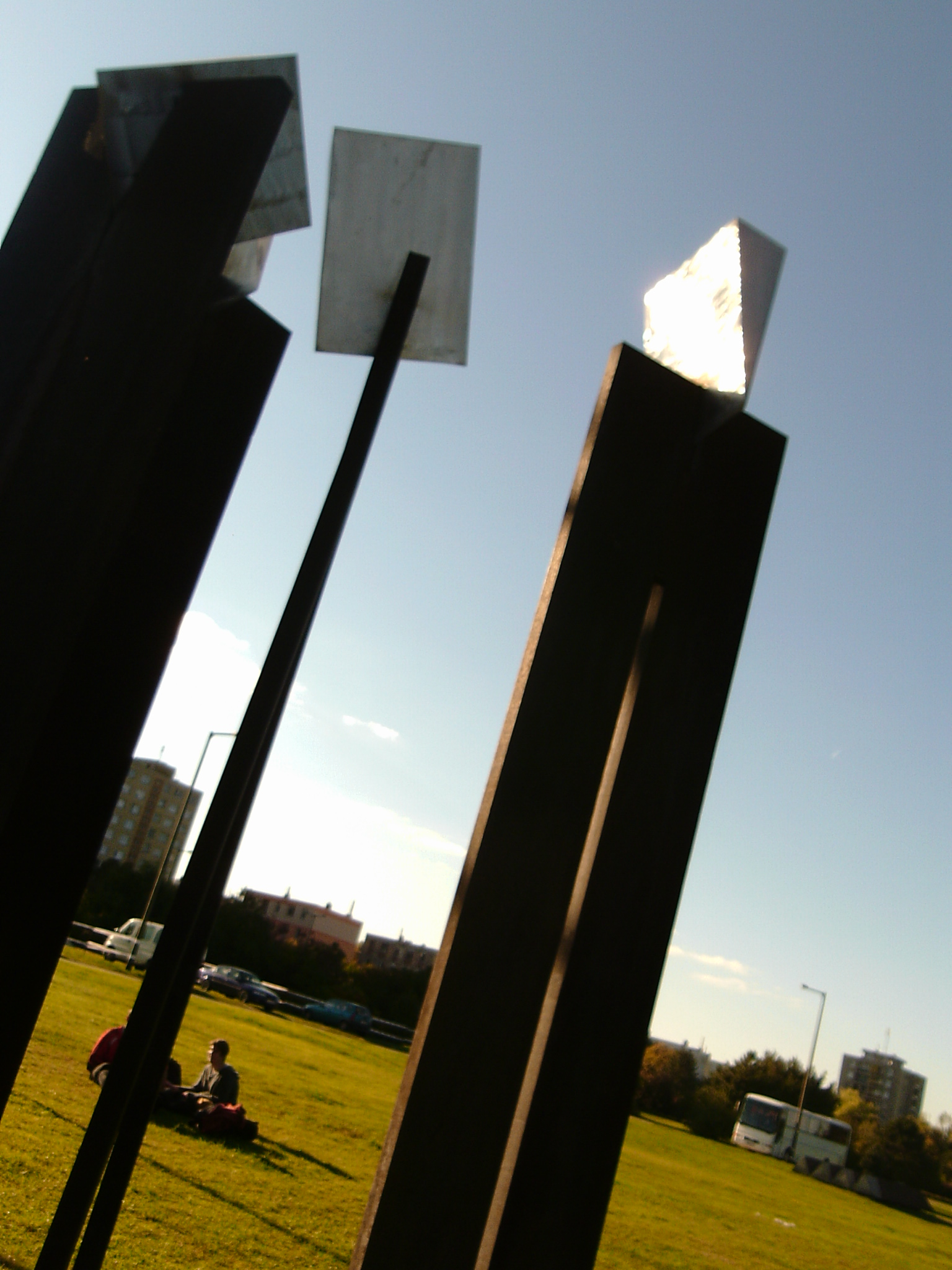 sculpture, Dunaujvaros, Hungary